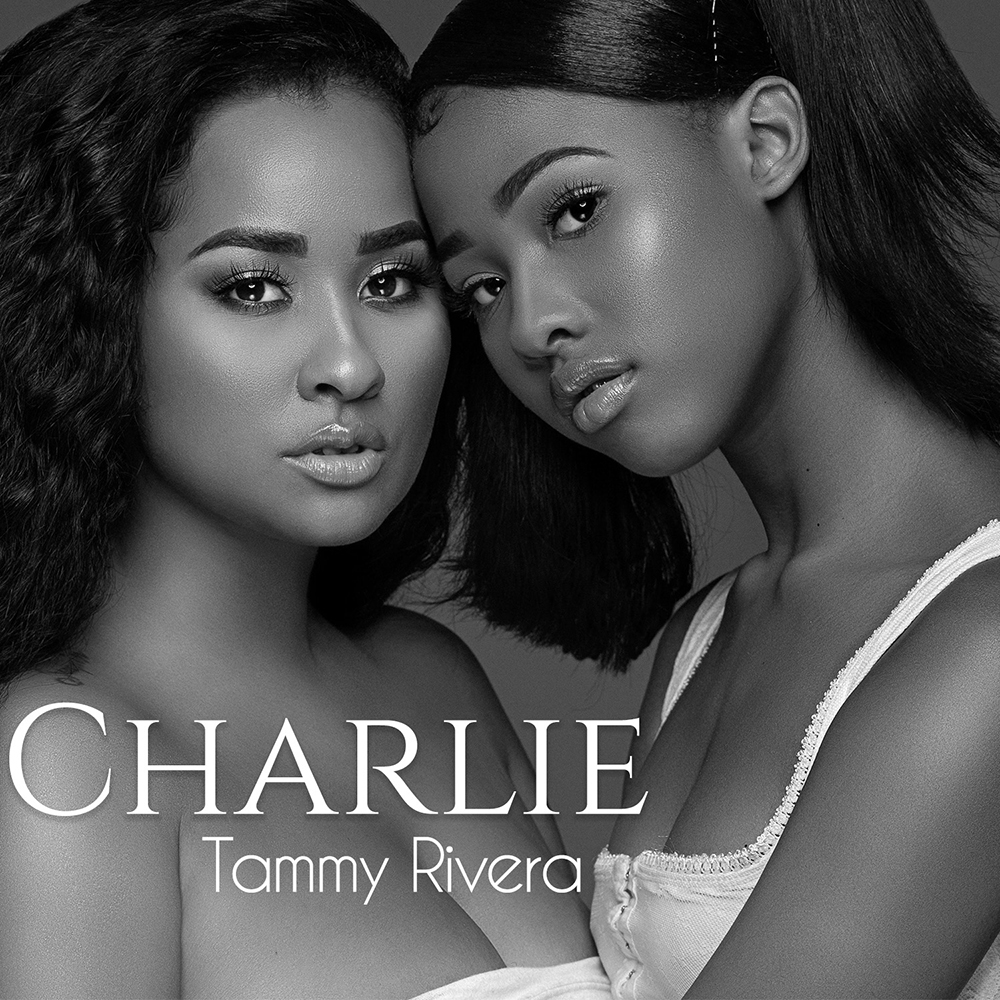 Tammy Rivera | cover for lead single to Conversations album "Charlie"